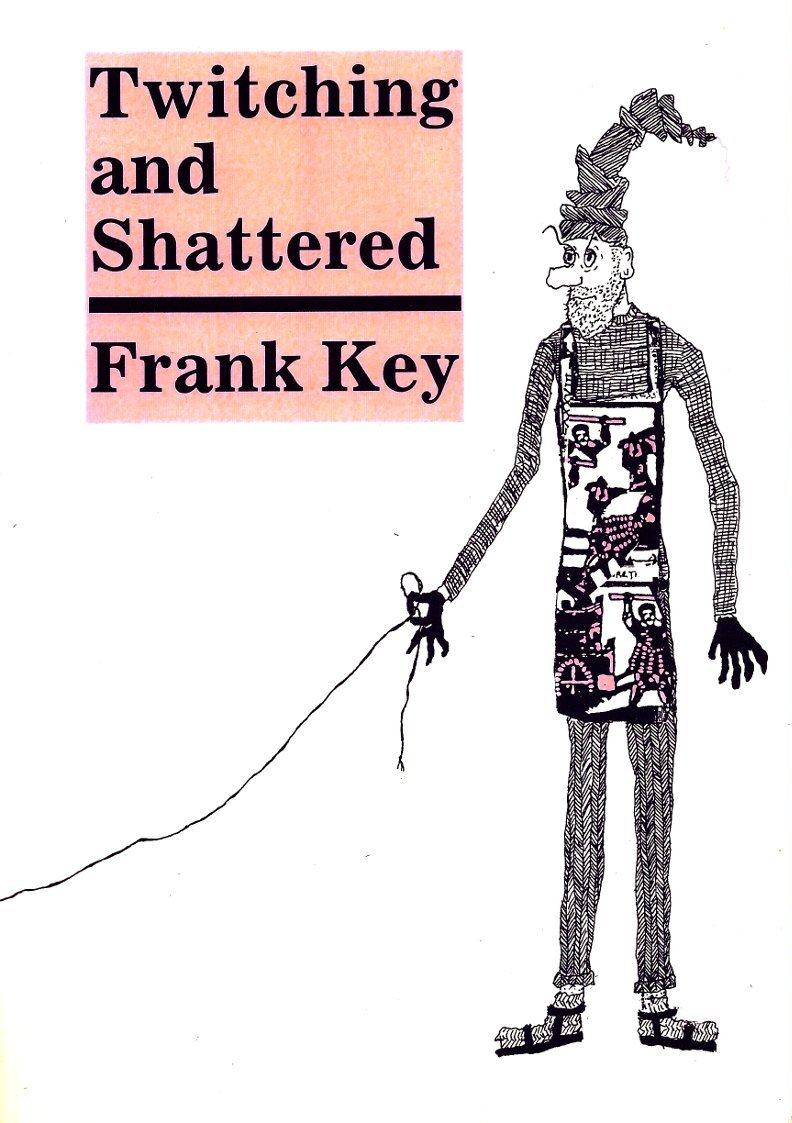 The cover of Frank Key's 1989 short story collection Twitching and Shattered. Scanned with the kind permission of the author.